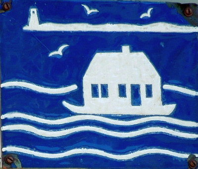 This plaque may be found on several historic homes located in the west end of Provincetown, Massachusetts. It distinguishes those houses which were once part of a settlement on Long Point, at the very tip of Cape Cod. When the settlement declined and disbanded, many of the 38 families took their house with them, by floating them across the harbor on rafts.